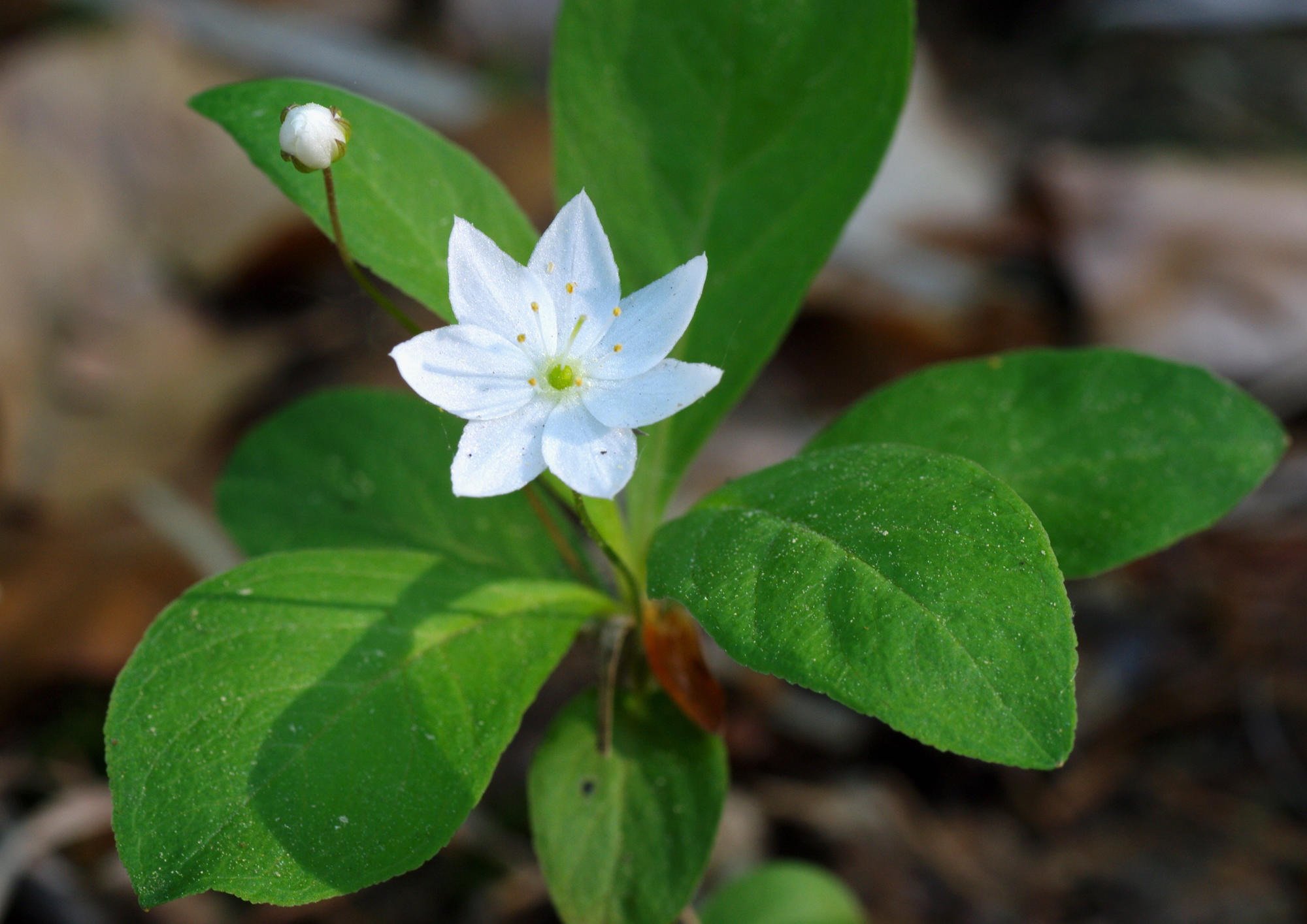 Flowering plant of Trientalis europaea (Primulaceae).